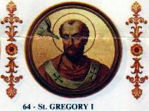 Portrait of Pope Gregory I in the Basilica of Saint Paul Outside the Walls, Rome